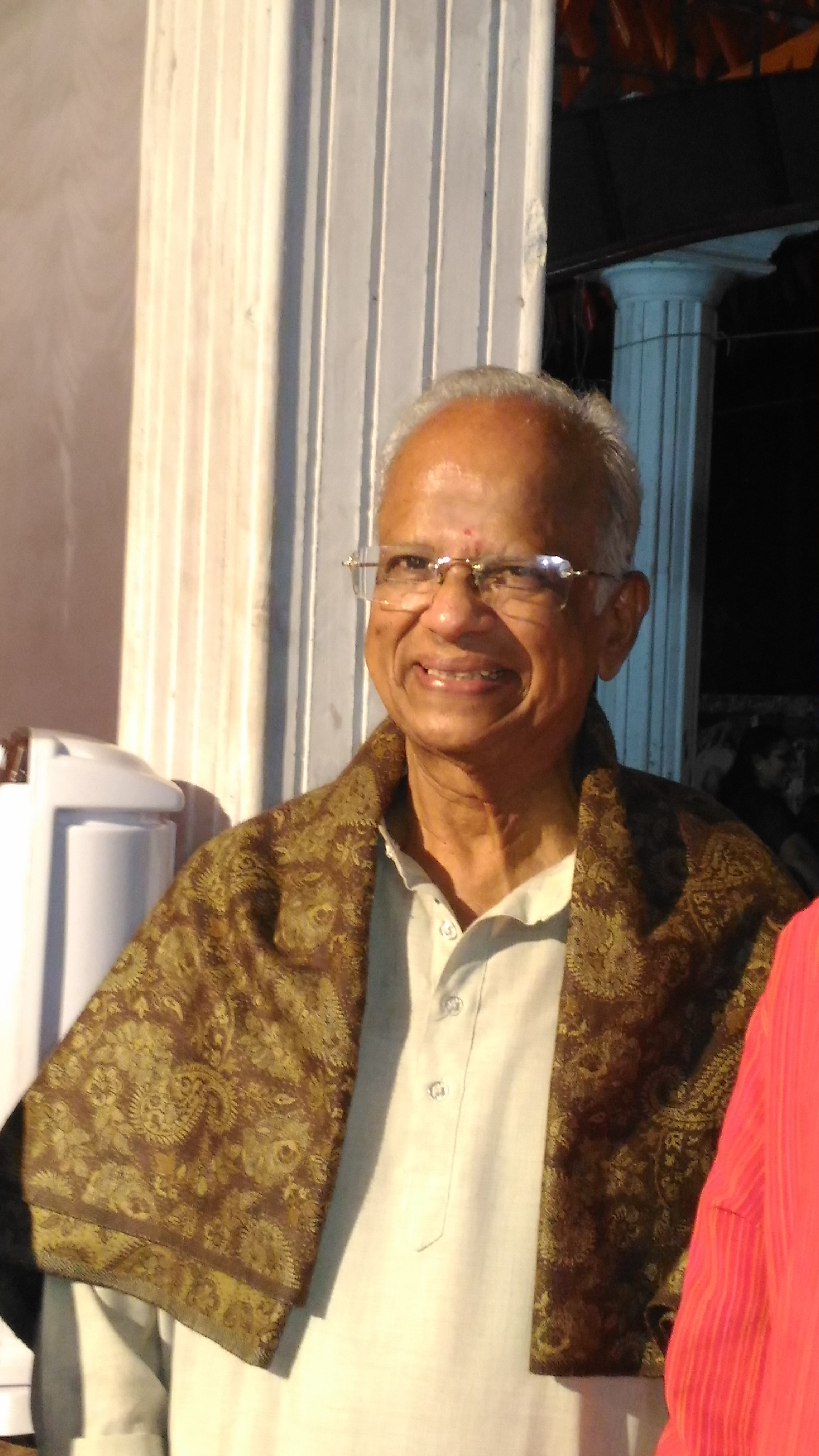 Padmashree T. V. Gopalakrishnan, Carnatic Musician